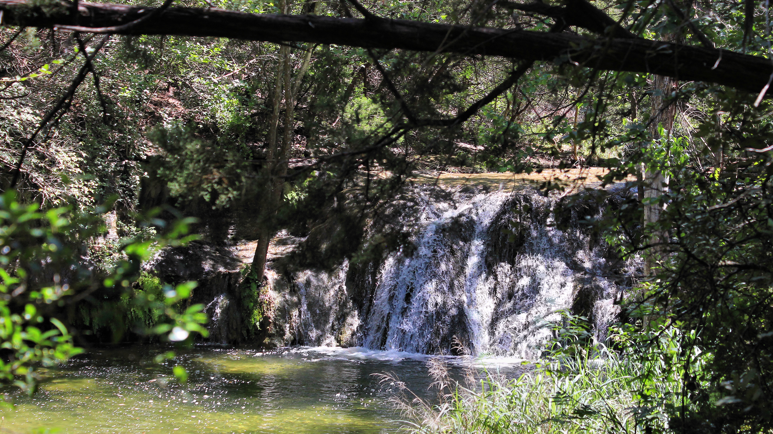 Waterfall in Wild Basin Wilderness Preserve, Austin, Texas, United States